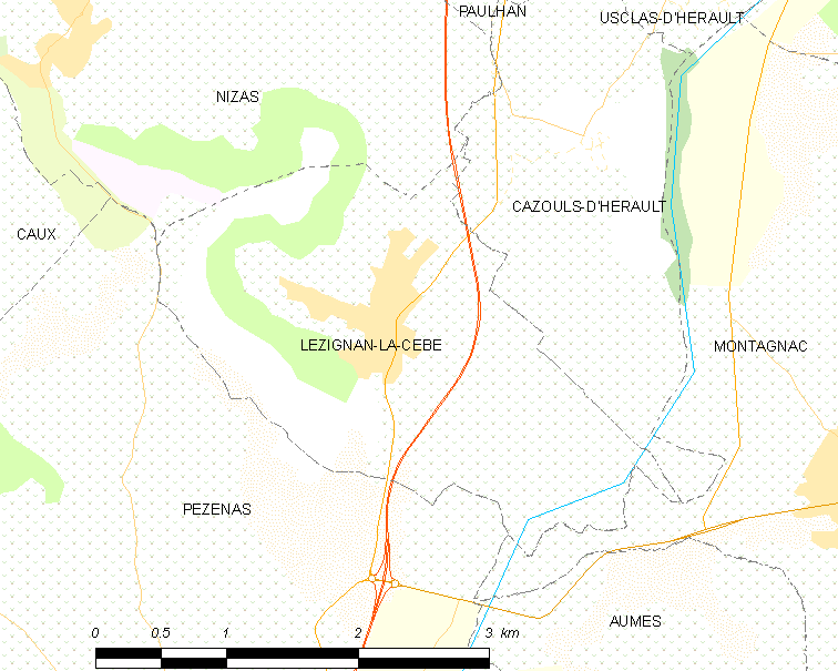 Map commune FR insee code 34136.png - Lézignan-la-Cèbe